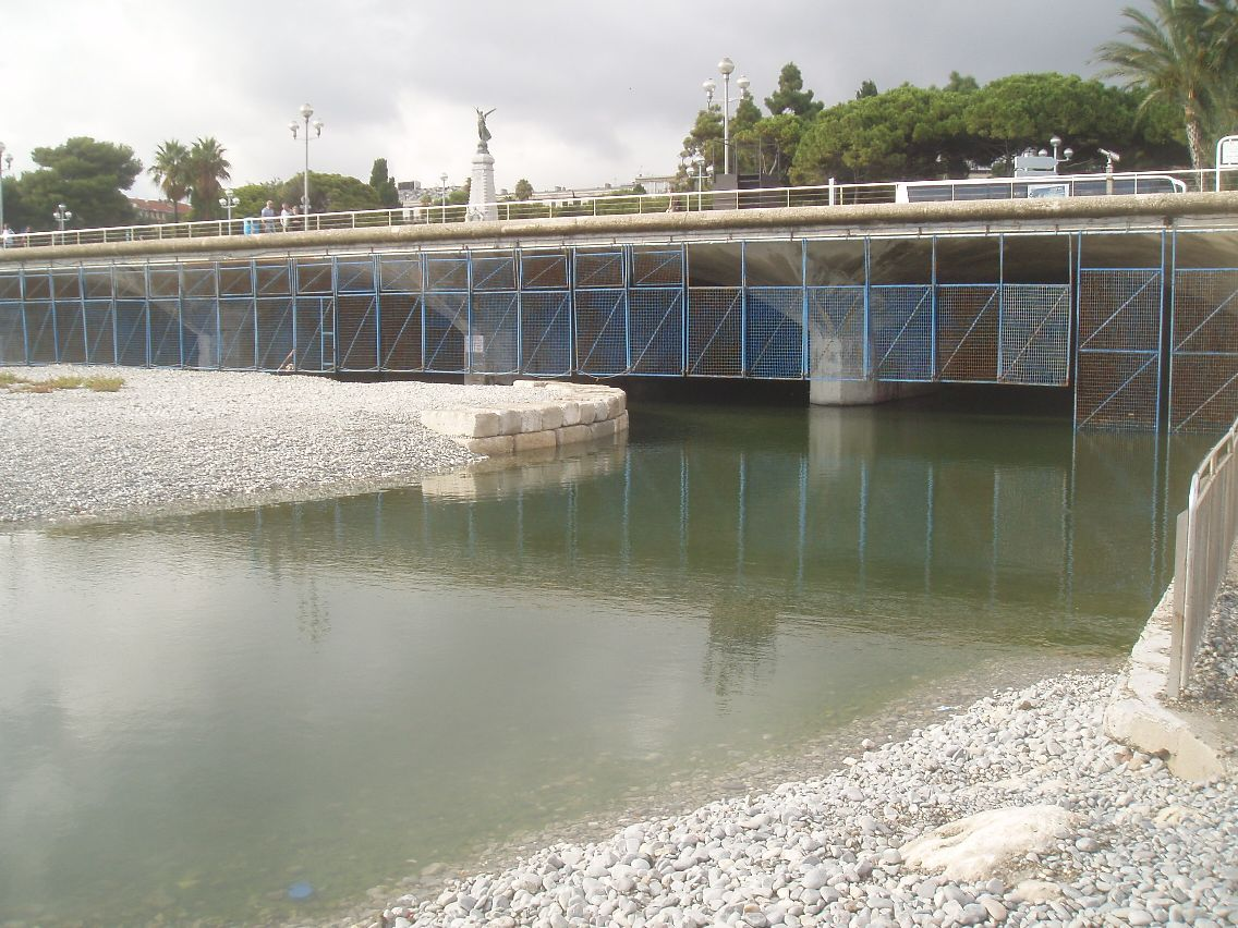 The mouth of the Paillon river into the Mediterranean sea